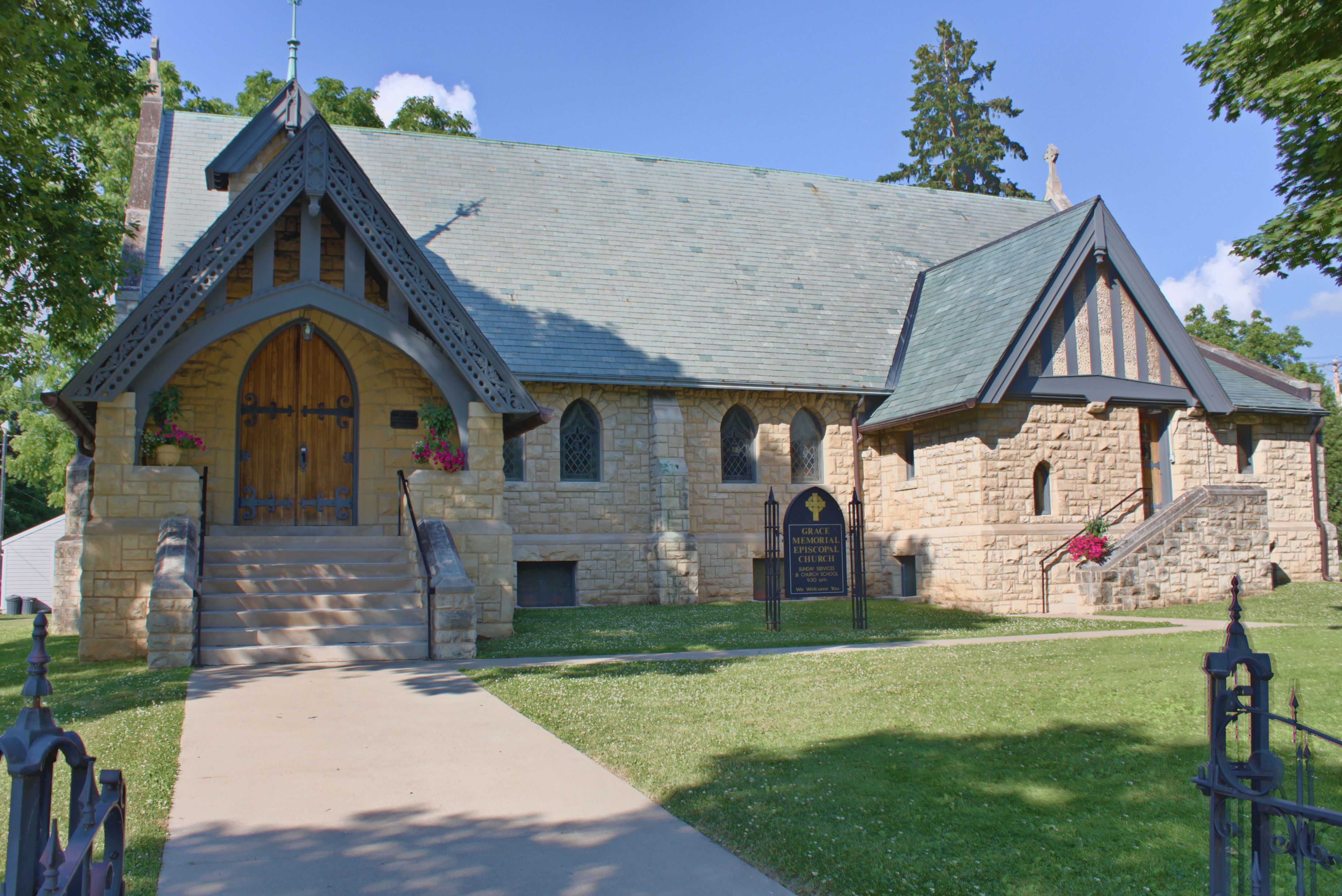 Grace Memorial Episcopal Church, Wabasha Minnesota, on Historic Register Mazzmn (talk) 03:40, 12 July 2011 (UTC)